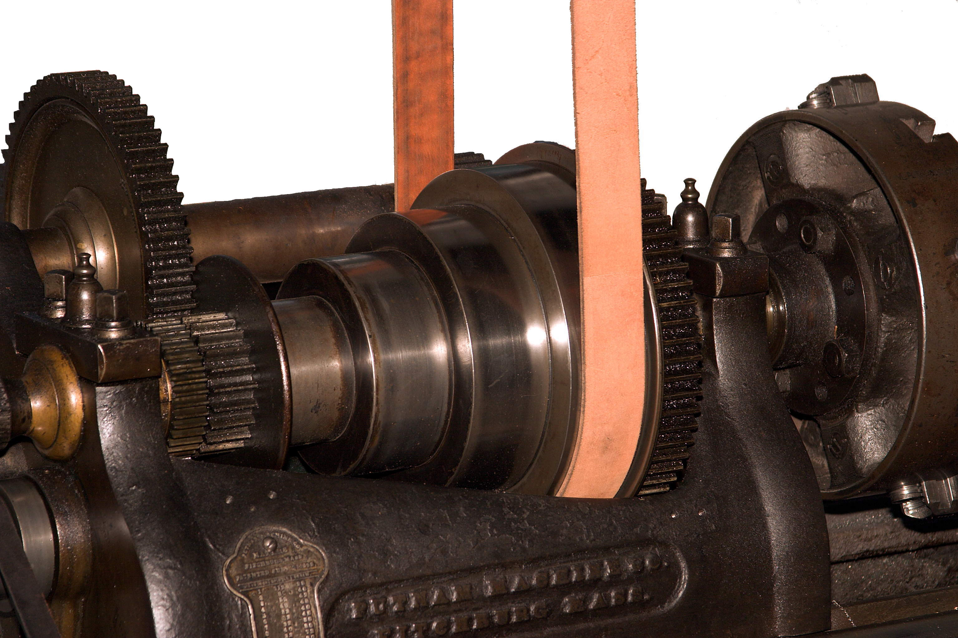 Putnam Machine Co lathe, machine shop, Hagley Museum